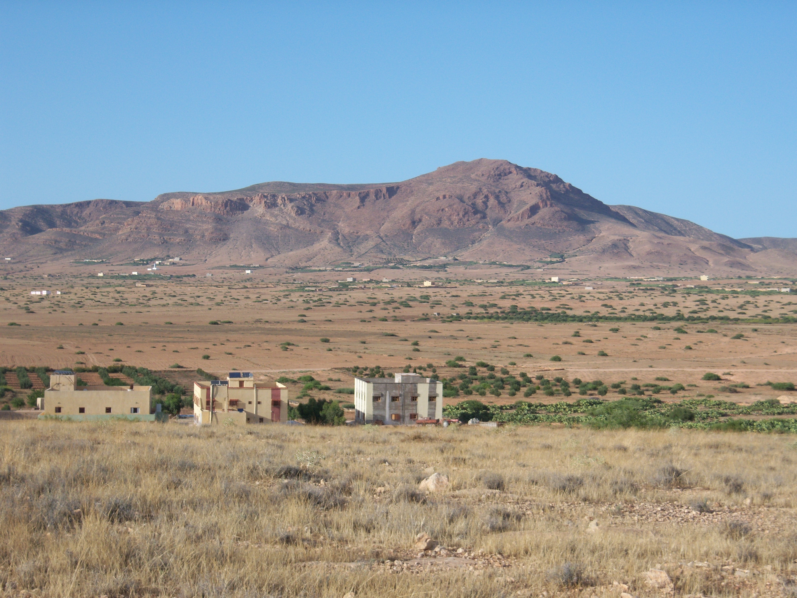 Landscape of Metalsa Area located at the east part of the Rif mountains in Northern Morocco. Clan/Tribe area: Ifatouchen